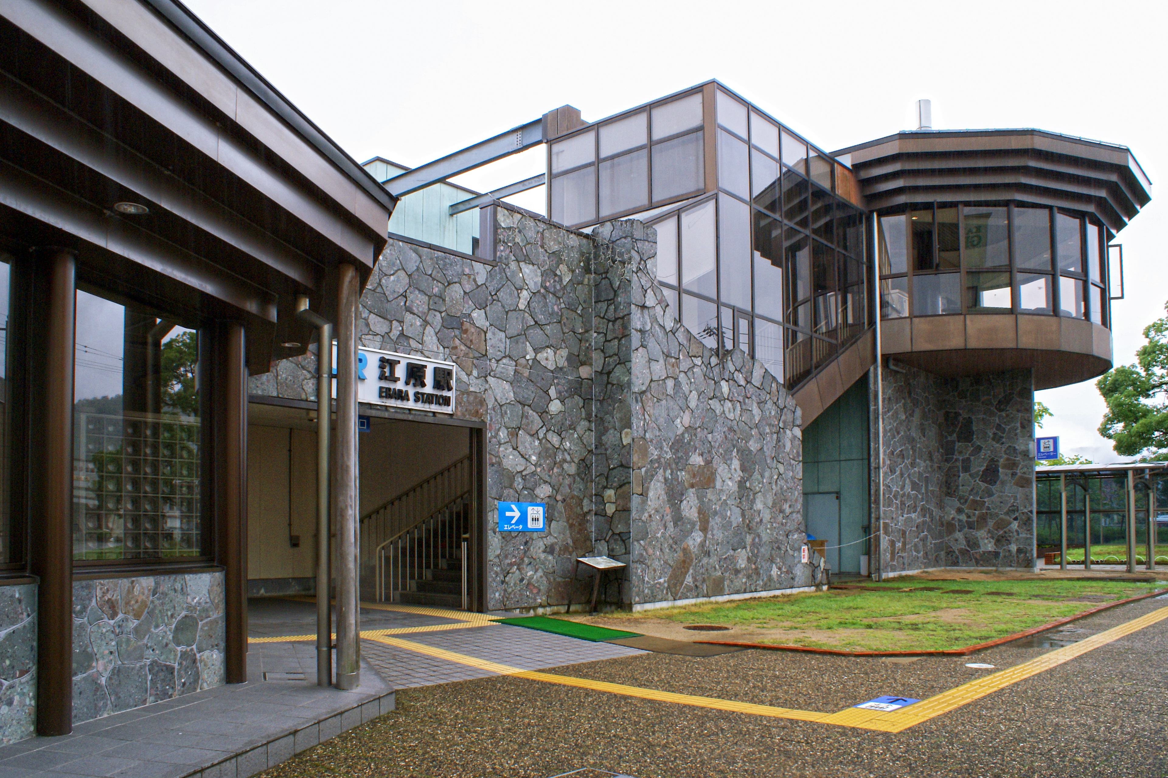 Ebara Station in Toyooka, Hyogo prefecture, Japan